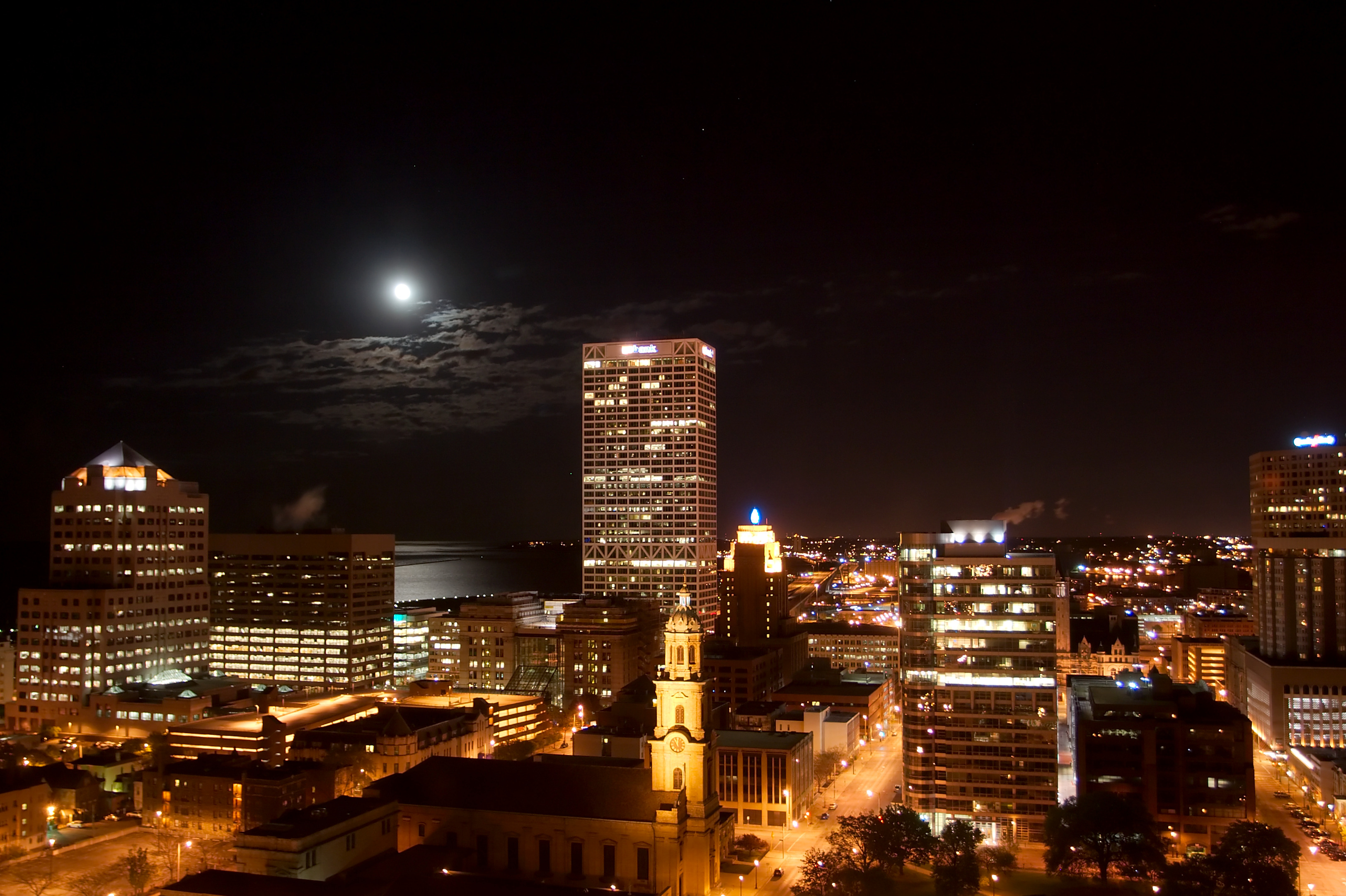 A view of downtown Milwaukee, Wisconsin by night